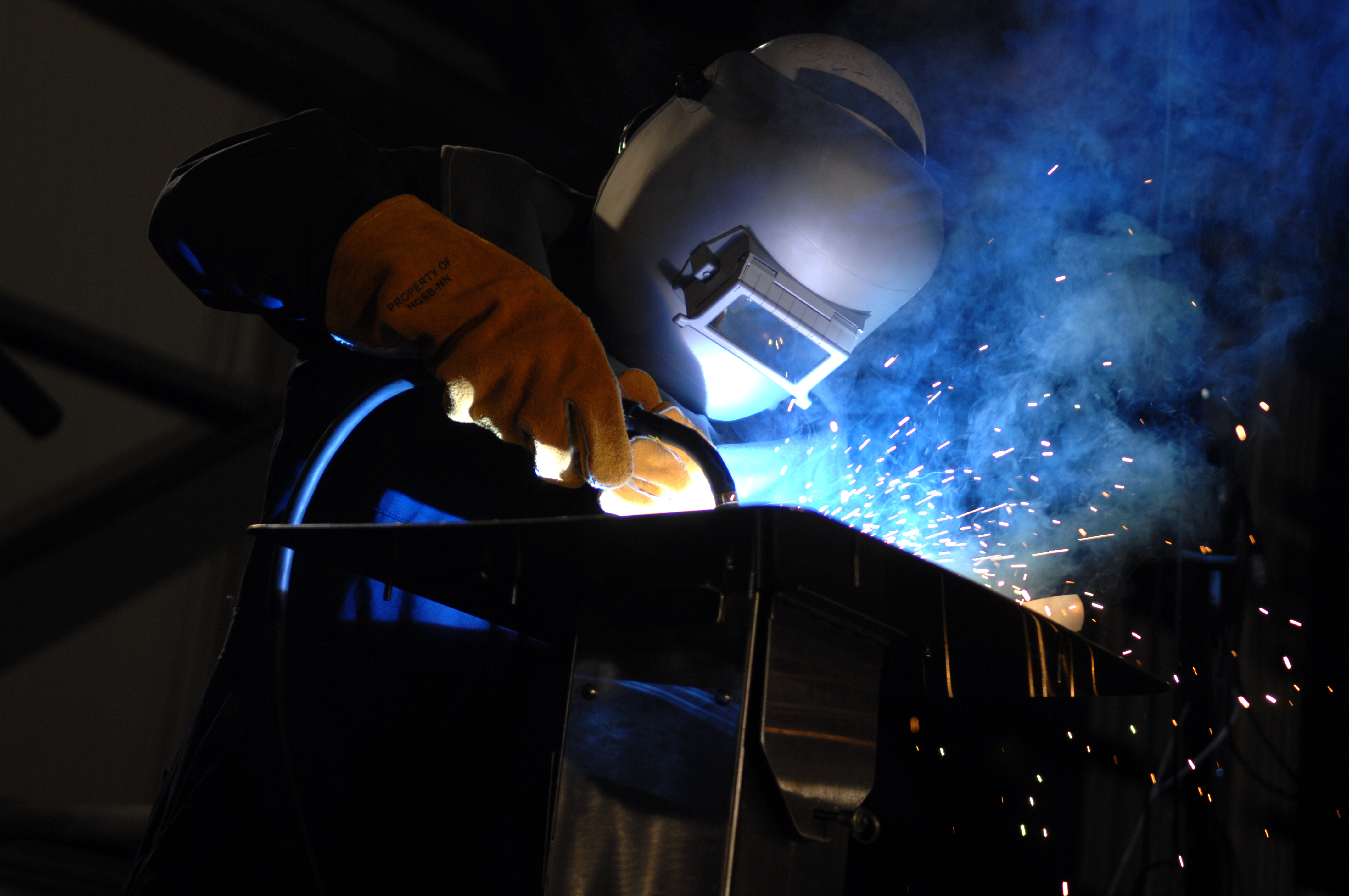 NEWPORT NEWS, Va. (Nov. 14, 2009) Robert Bowker welds the initials of Susan Ford Bales into the keel of the aircraft carrier Gerald R. Ford (CVN 78) during a keel laying and authentication ceremony at Northrop Grumman Shipbuilding in Newport News. Gerald R. Ford is the newest class of aircraft carrier. (U.S. Navy photo by Mass Communication Specialist 2nd Class Kevin S. O'Brien/Released)